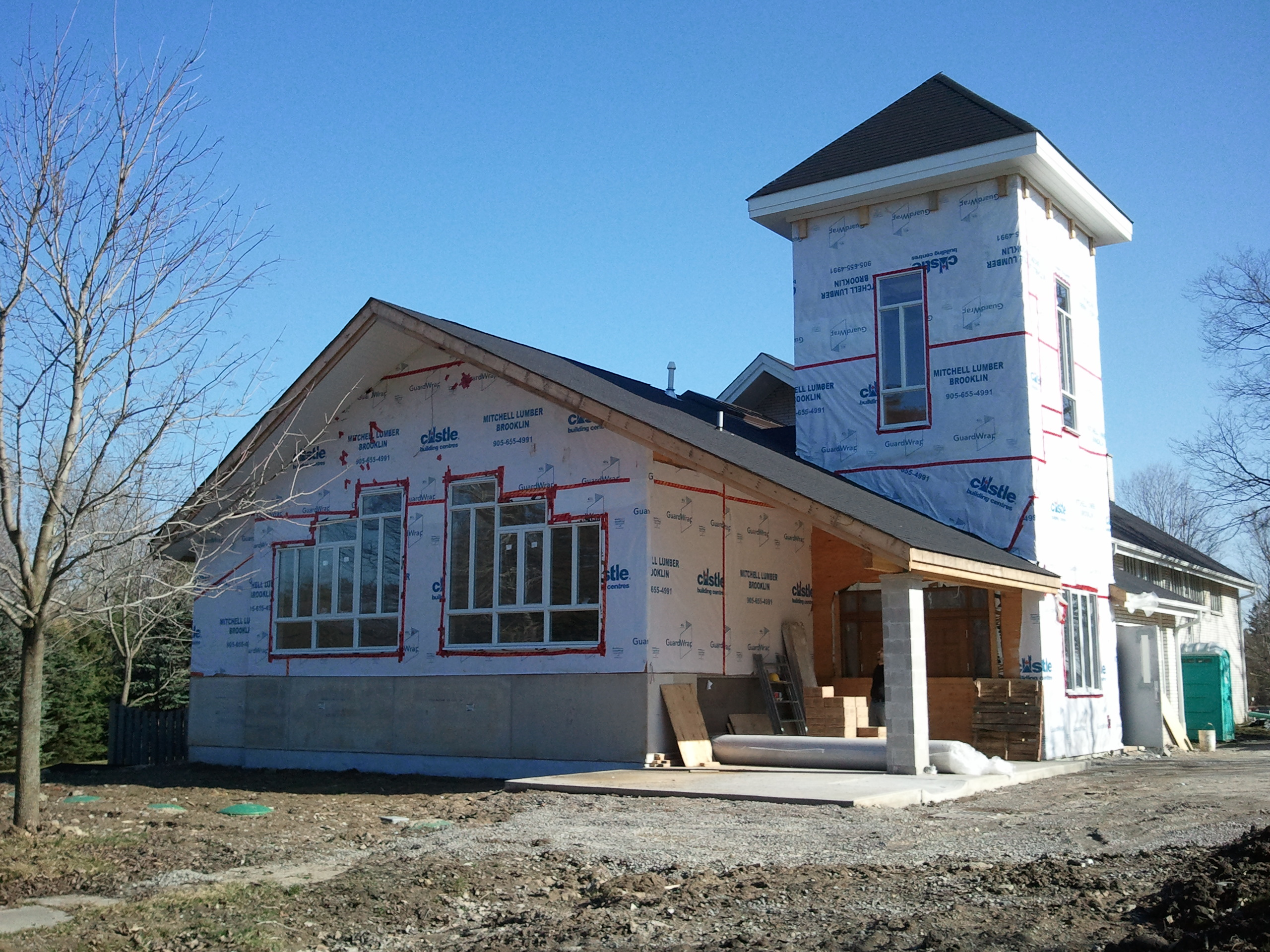 Burns Presbyterian Church, Myrtle Rd., Ashburn Ontario. Addition and renovation, Spring 2012